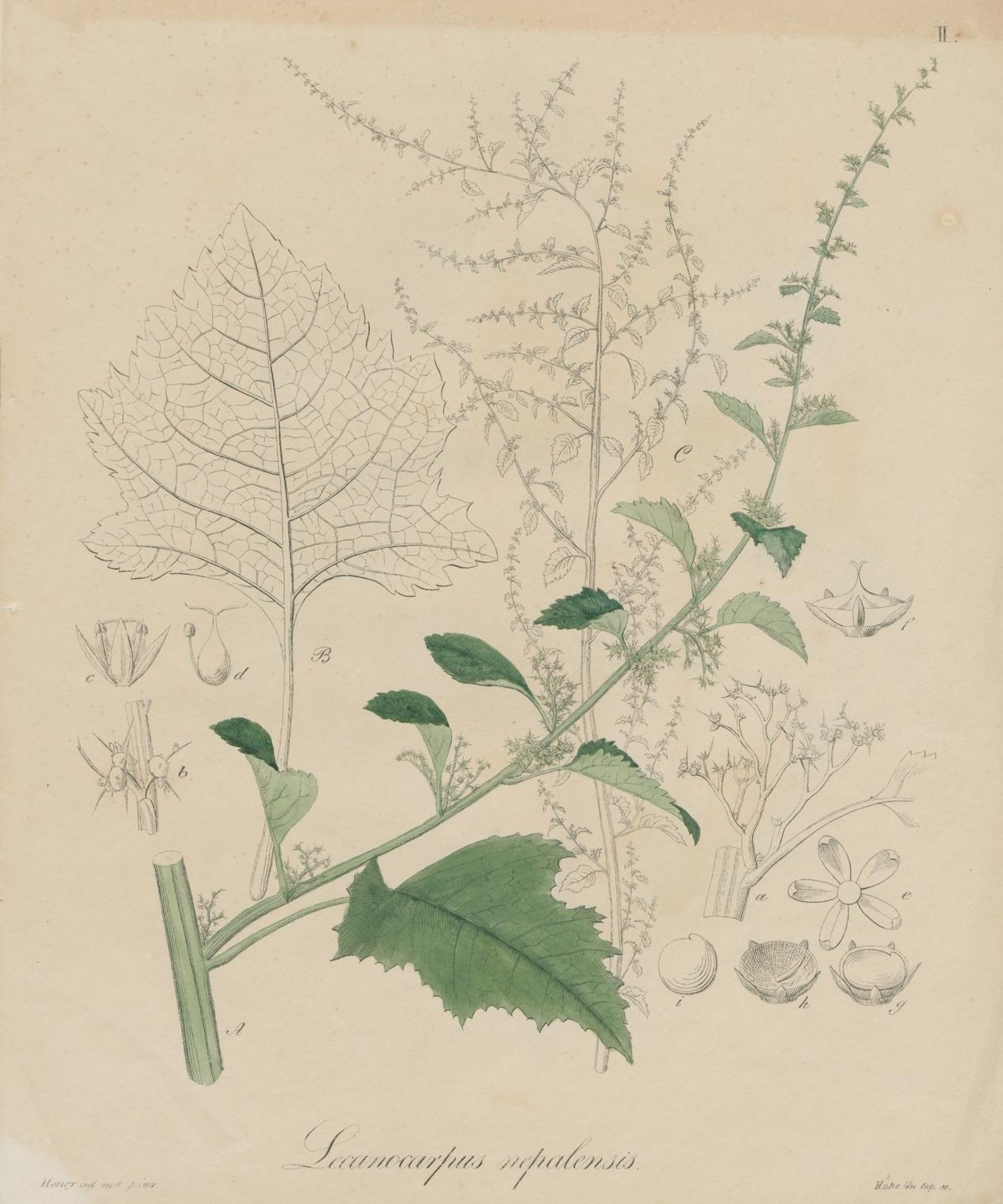 Acroglochin persicarioides (Poiret) Moq. (as Lecanocarpus nepalensis Nees)